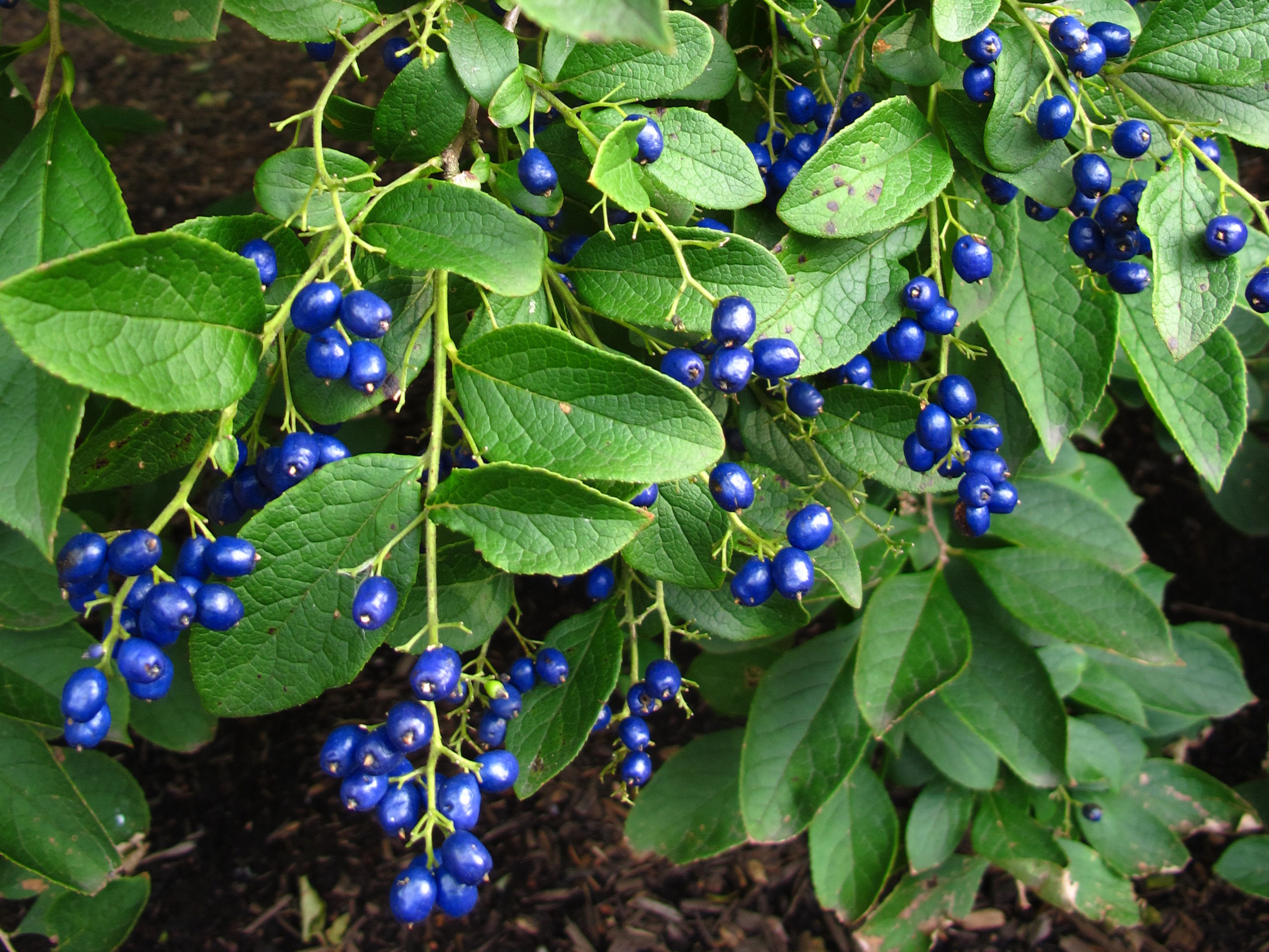 Symplocos paniculata Miq. - Asiatic sweetleaf - New York Botanical Garden